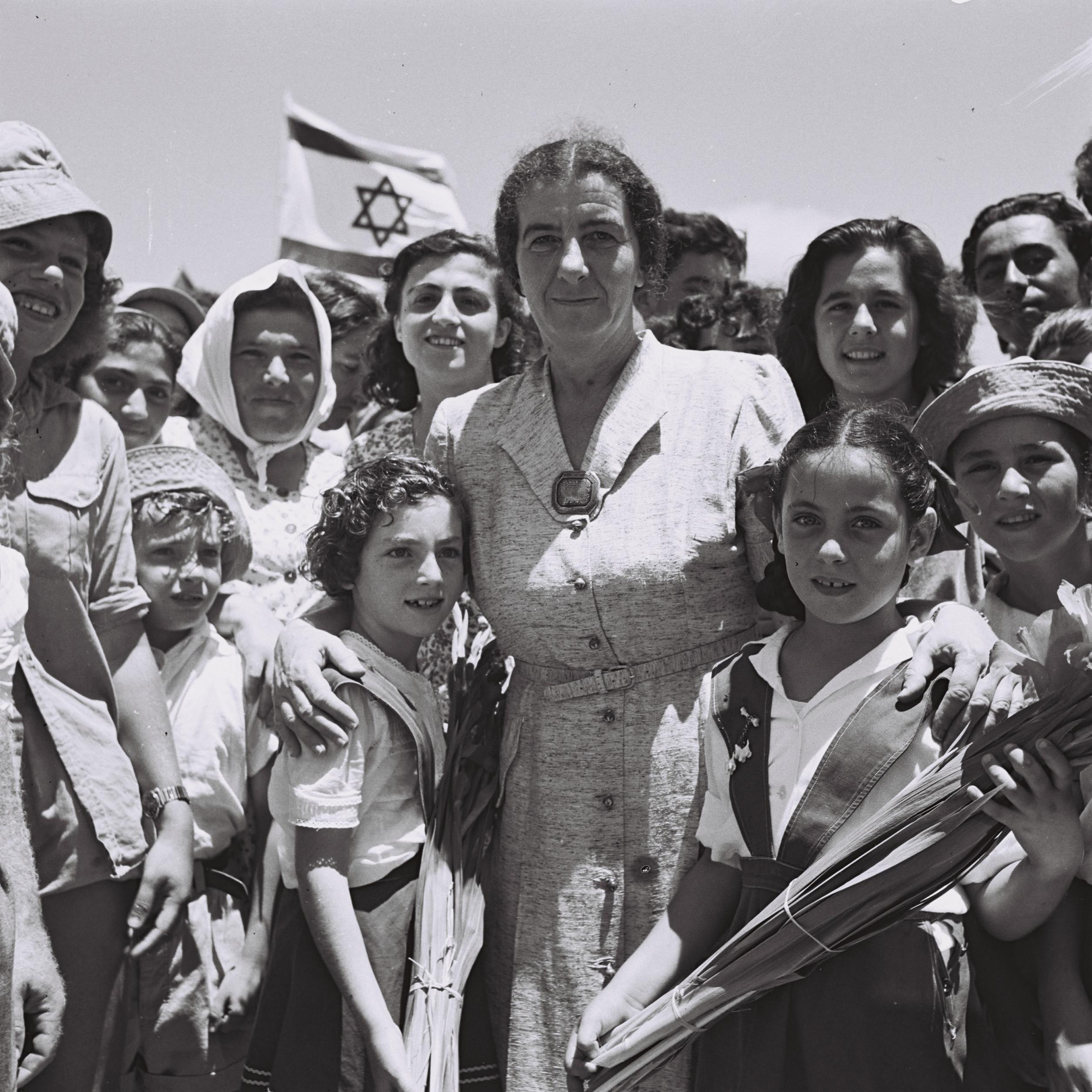 AFTER THE OPENING OF THE TEL AVIV NATHANIA HIGHWAY, MRS. GOLDA MEIR POSES FOR A PICTURE WITH THE CHILDREN OF KIBBUTZ SHEFAIM.